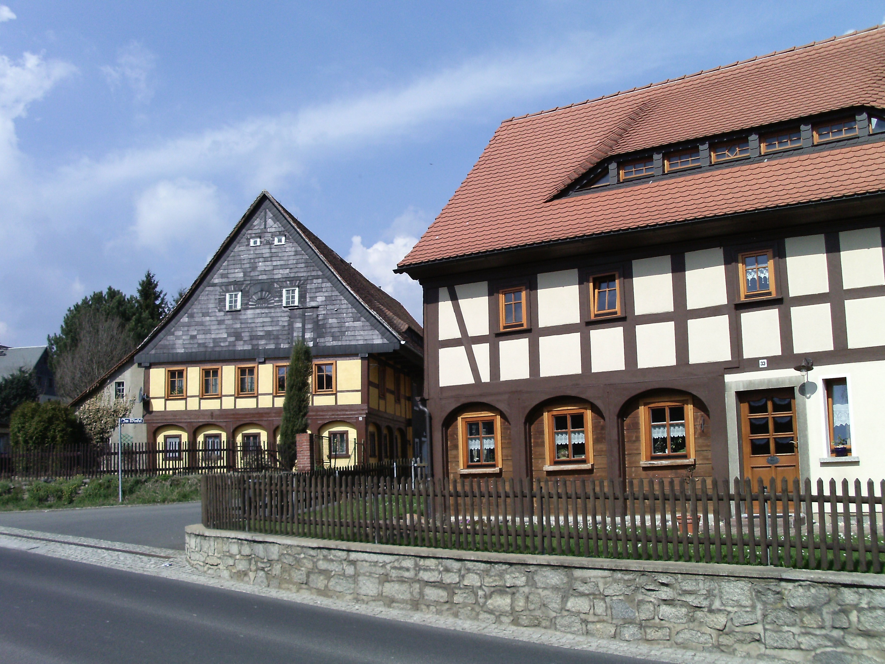 Umgebindehäuser in Bertsdorf, Hauptstraße 33 und 34 (Bertsdorf-Hörnitz, Görlitz district, Saxony)